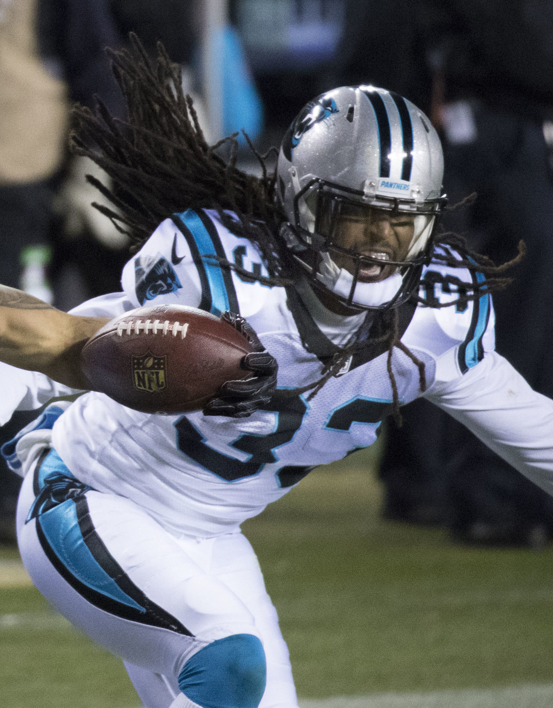 Panthers at Redskins 12/19/16